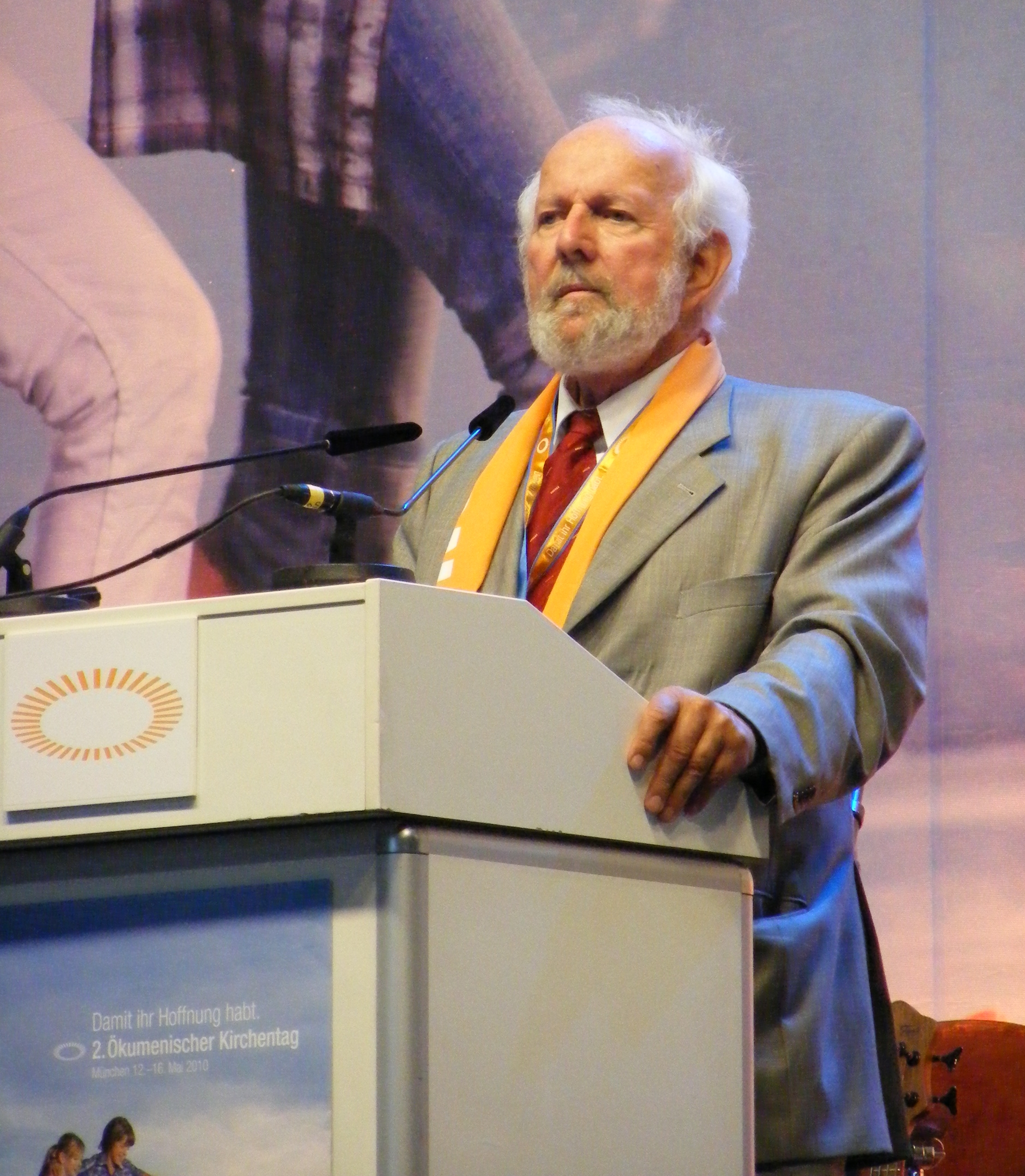 Ernst Ulrich von Weizsäcker at the 2nd Ökumenischer Kirchentag in Munich